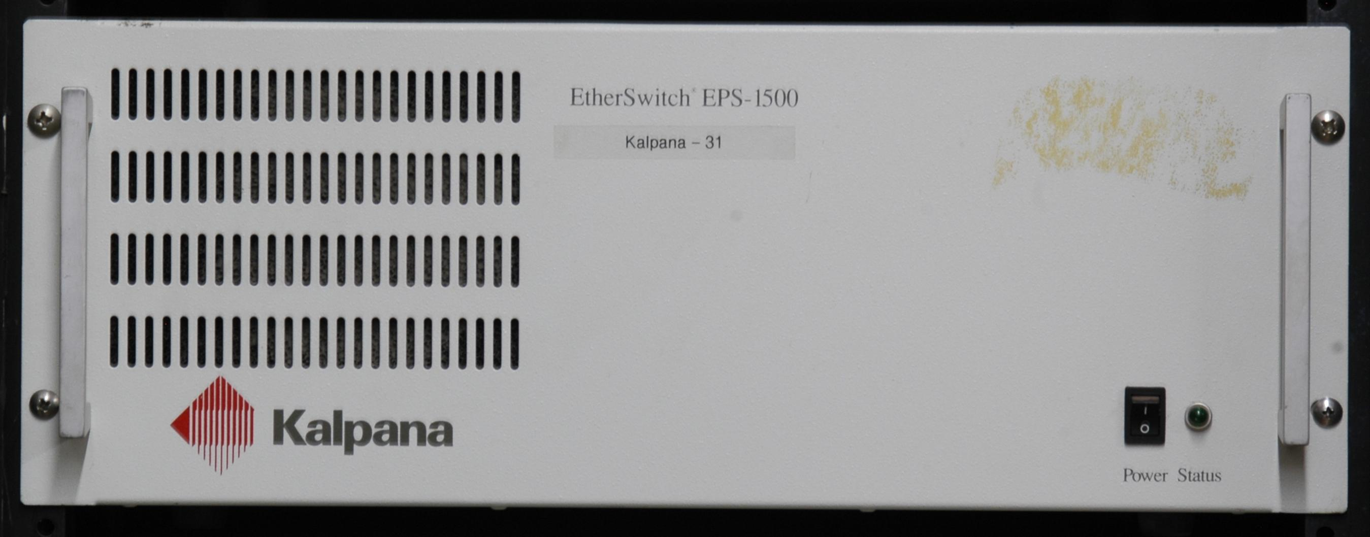 Kalpana EtherSwitch. From the collection of the RCS/RI.